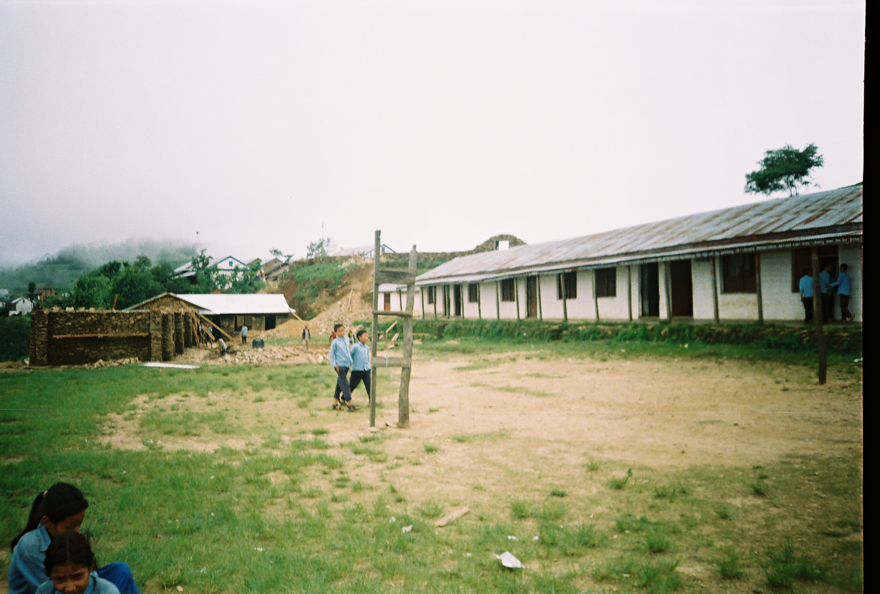 chandeswor